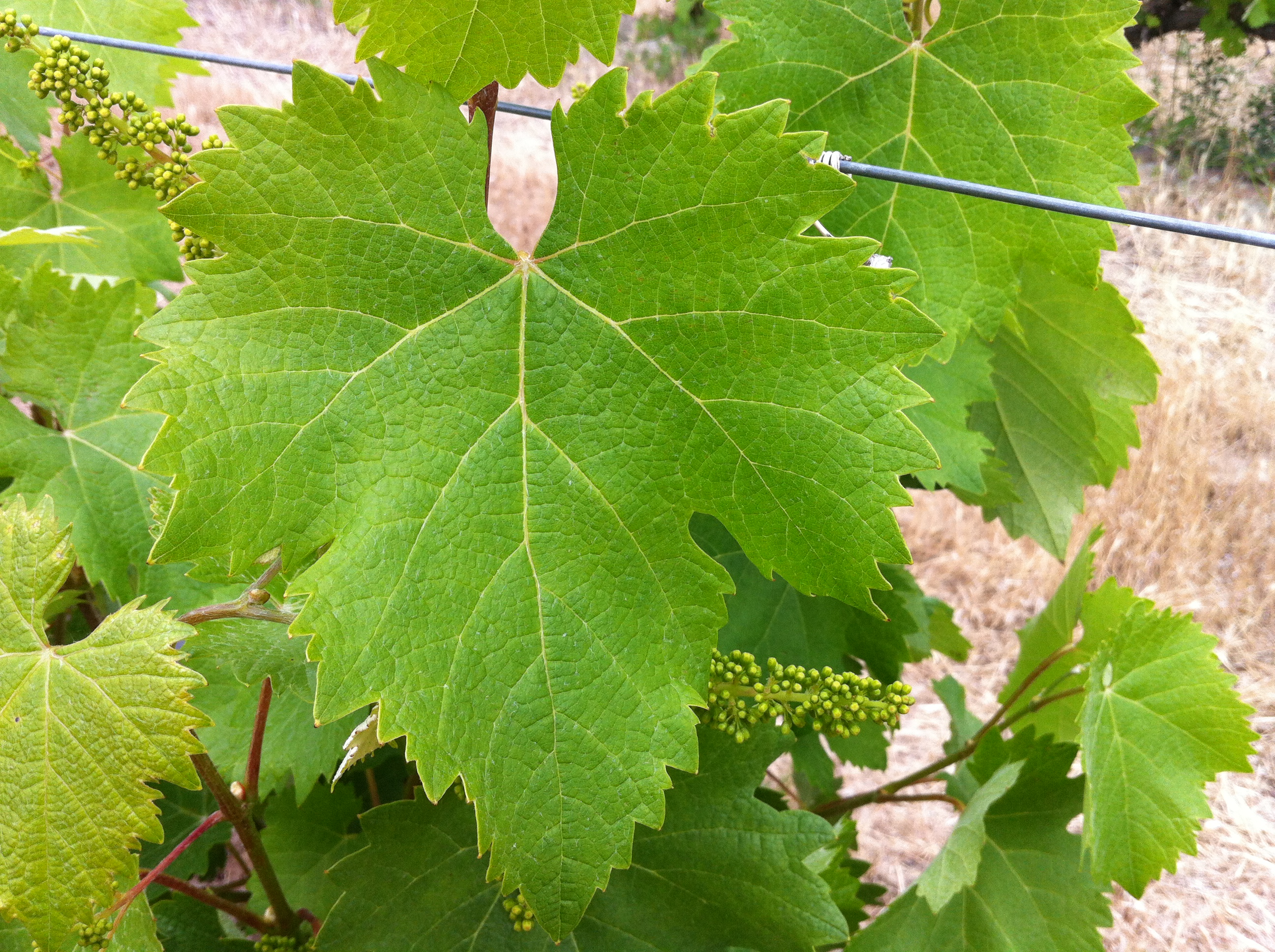 Close up of Mourvedre leaf